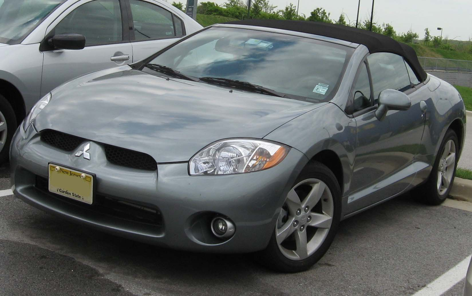 2006-2007 Mitsubishi Eclipse photographed in USA.